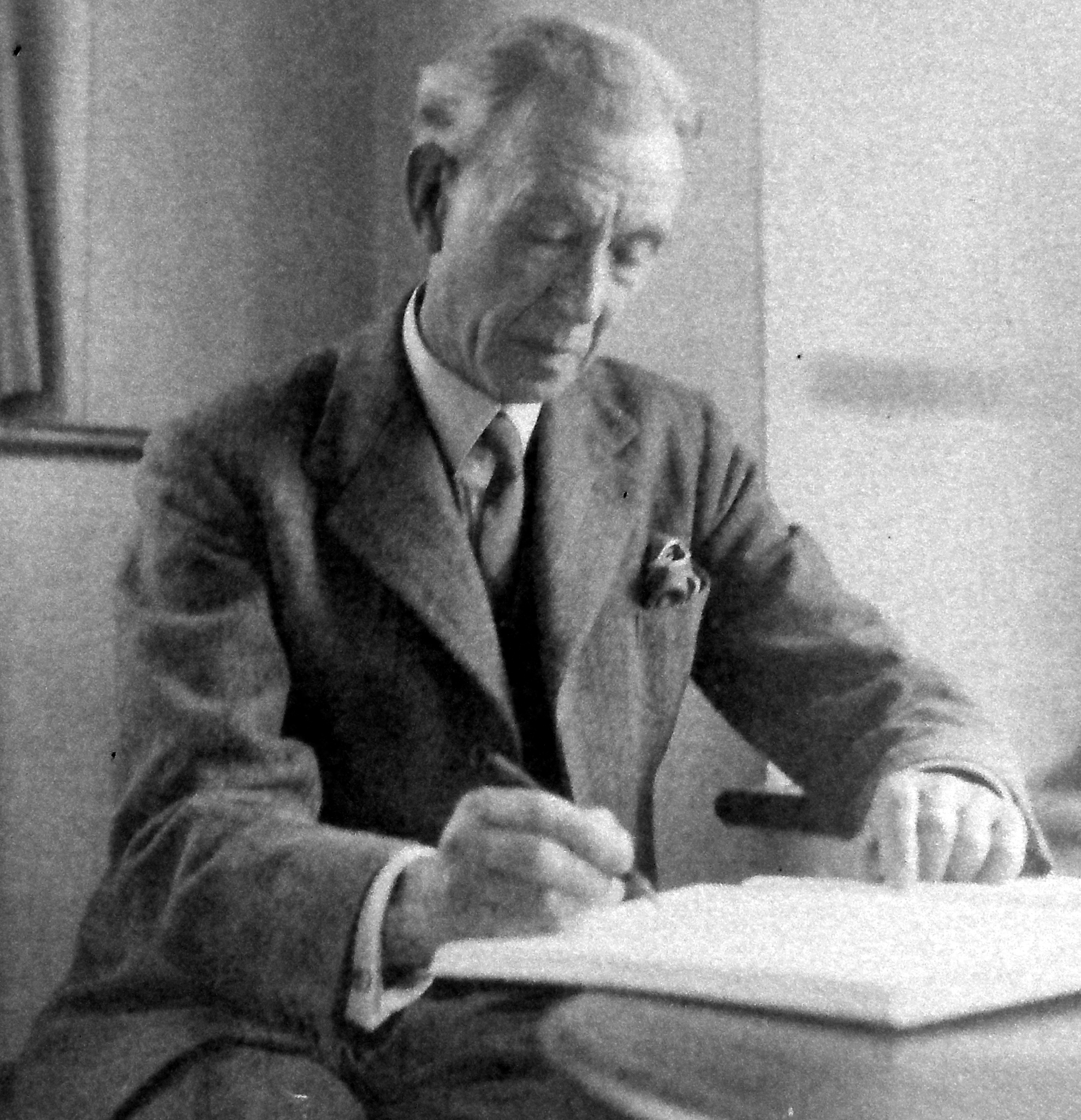 Frederick Haggis at work